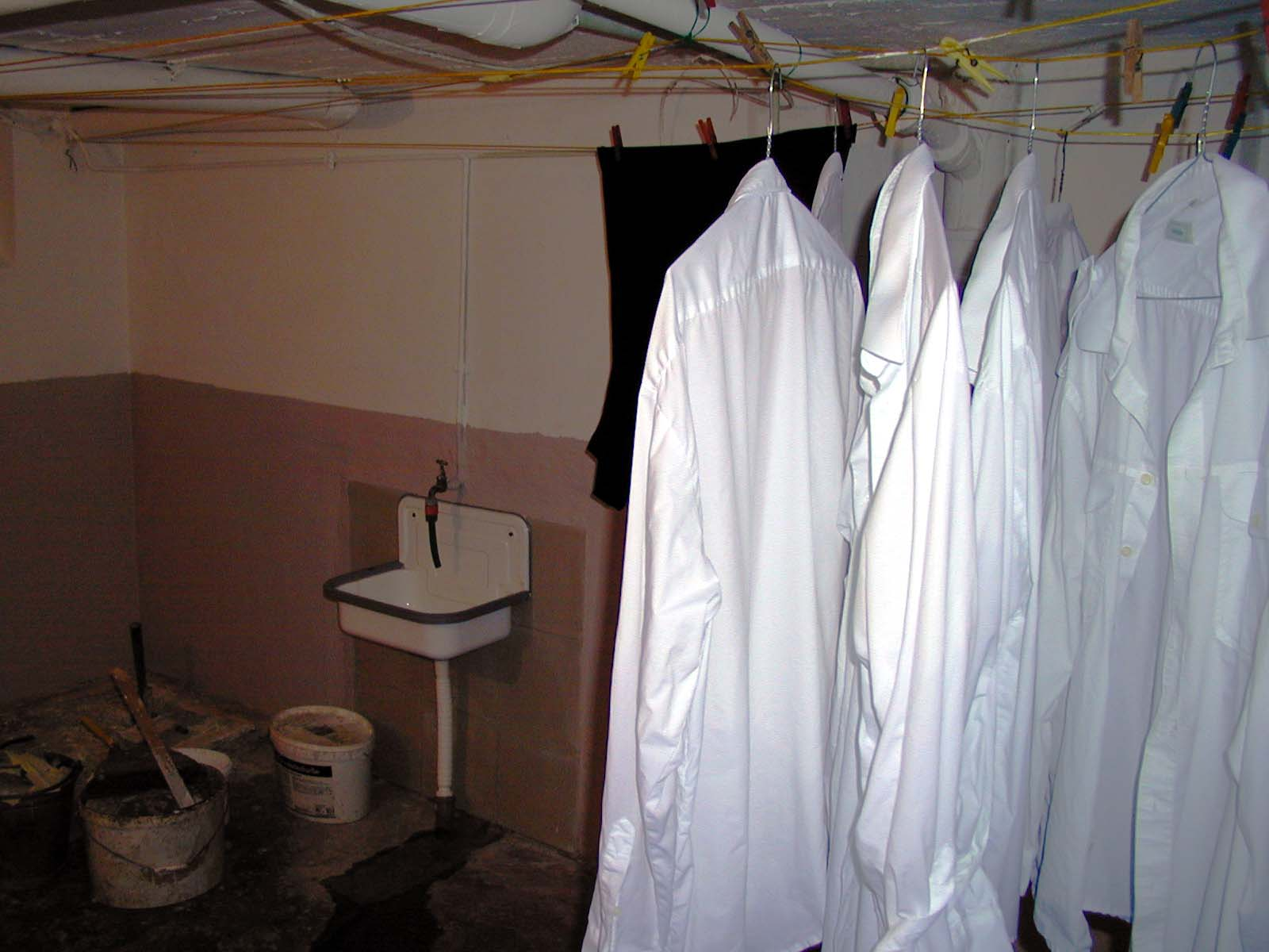 Ein alter Trocken- und Waschkeller mit weißen Hemden : An older cellar for washing and drying Source: own work Date: 2002, Bochum, Germany Author: Maschinenjunge Licence: GFDL, cc-by 3.0 de: Regionalverband_Ruhr